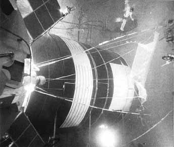 Rigging of the protective shields for Skylab was rehearsed many times in the neutral buoyancy simulator. Here, a shield made of netting (for simulation only) is being rigged underwater to determine the problems that would be encountered in space.